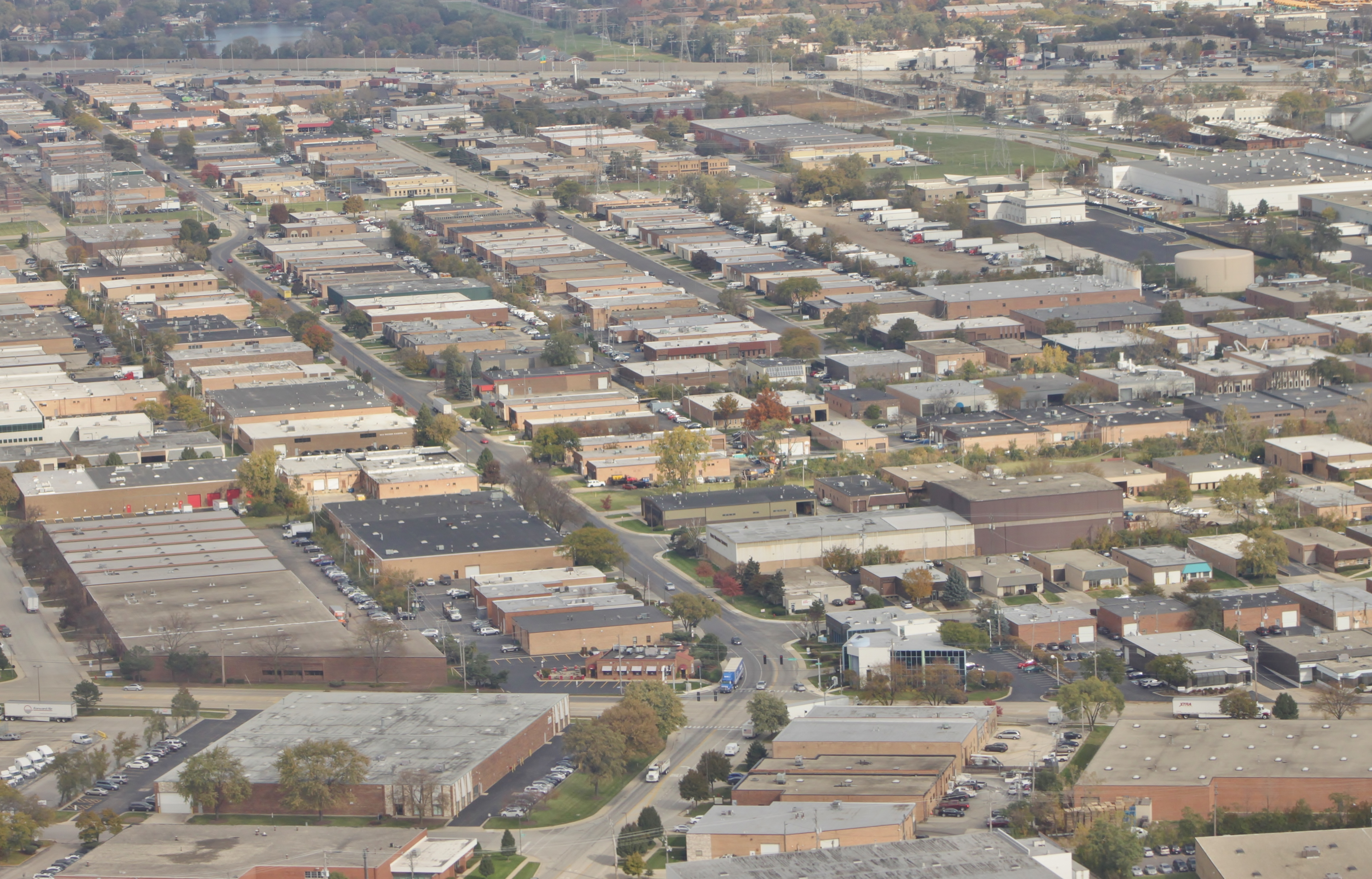 An aerial view of an industrial park in Elk Grove Village, Illinois, taken from an airplane on approach to O'Hare International Airport in Chicago.